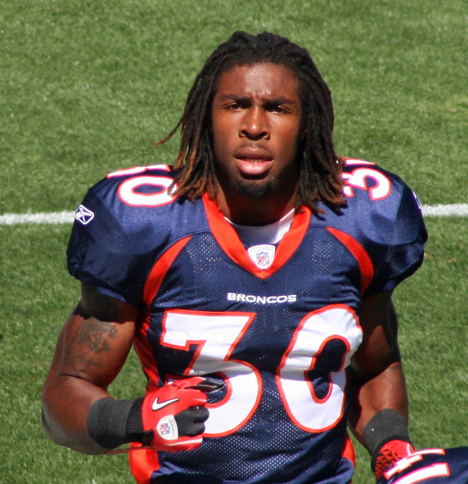 David Bruton, a player on the Denver Broncos American football team.